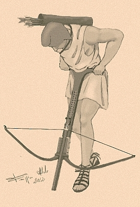 Catapult ancestor, gastraphetes, used in the Motya's siege by Dyonisius I, siracusian tyrant.